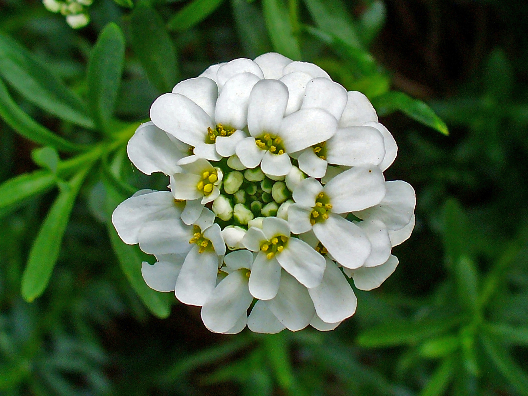 Iberis sempervirens, Brassicaceae, Evergreen Candytuft, inflorescence; Botanical Garden KIT, Karlsruhe, Germany.